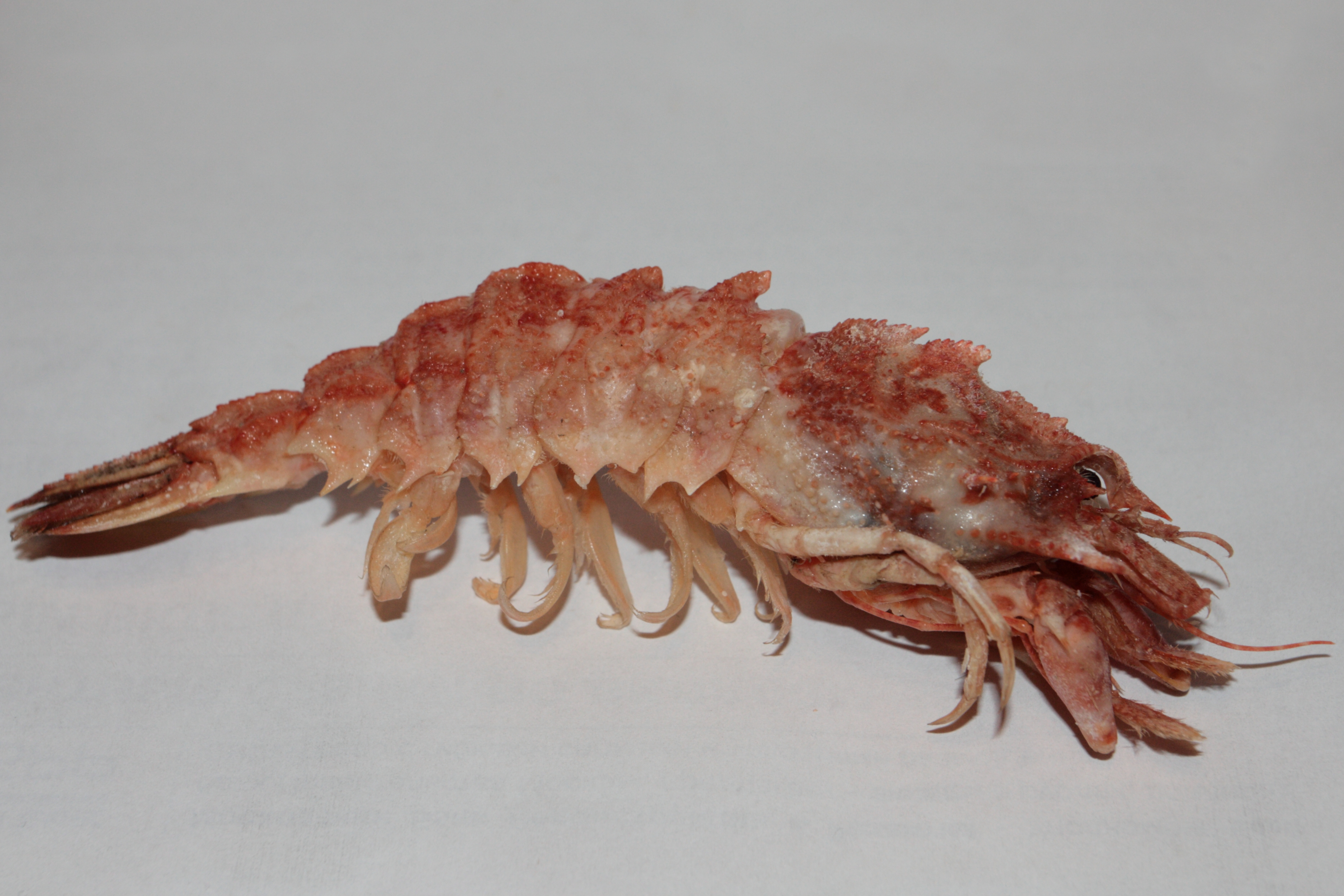 Sclerocrangon salebrosa. Profile.